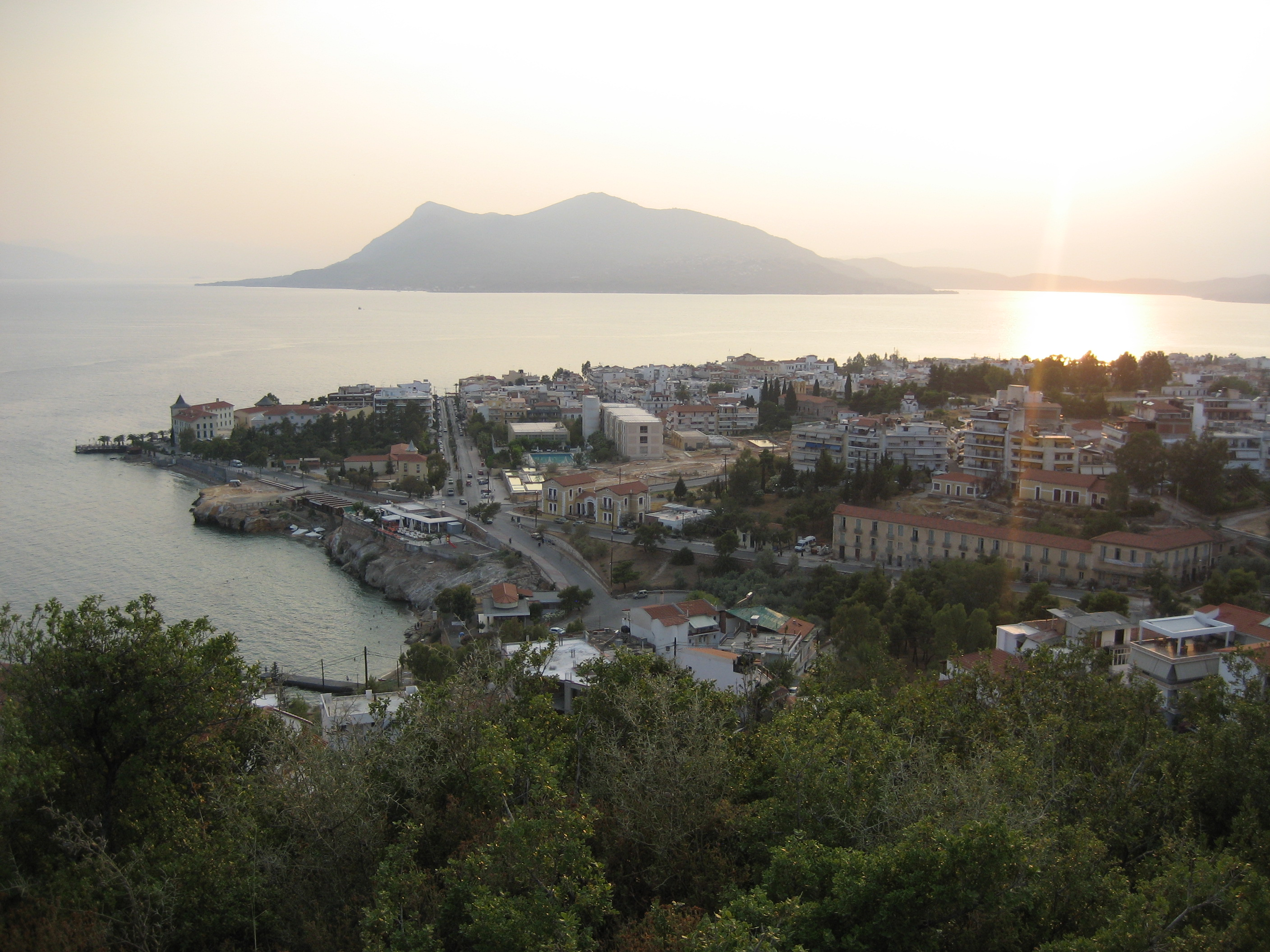 Aidipsos seen from the new overpass under construction